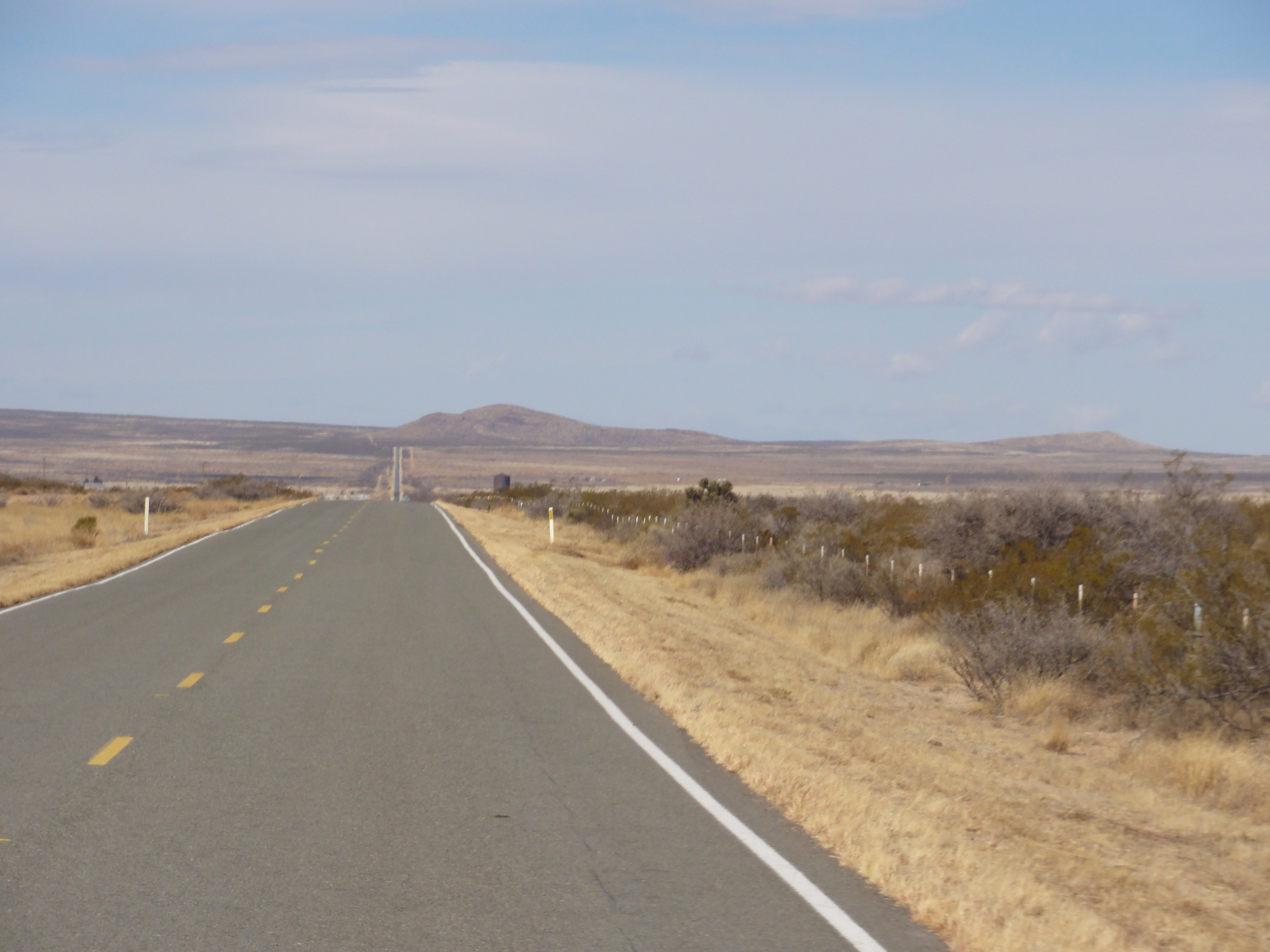 New Mexico State Road 9 slightly east of Hachita